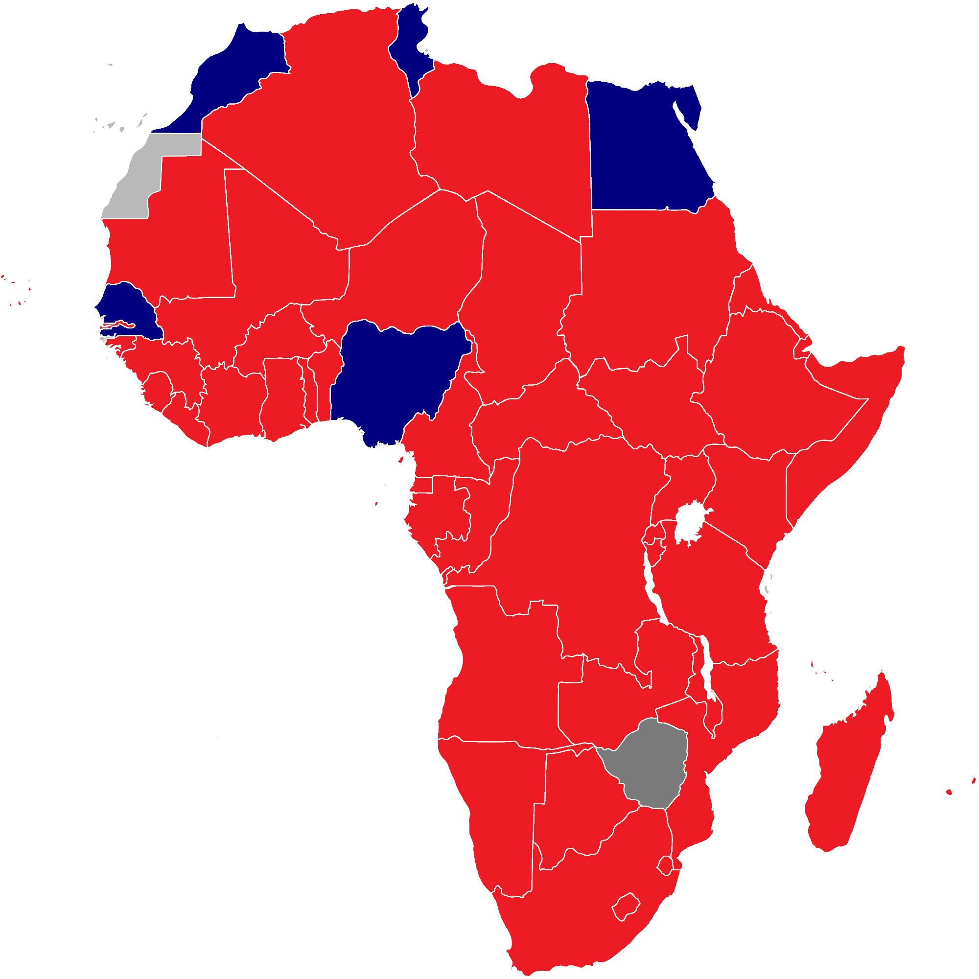 Status of countries with respect to 2018 FIFA World Cup: Team qualified Team may qualify Cannot qualify - eliminated Country is a CAF member but cannot qualify Country is not a CAF member